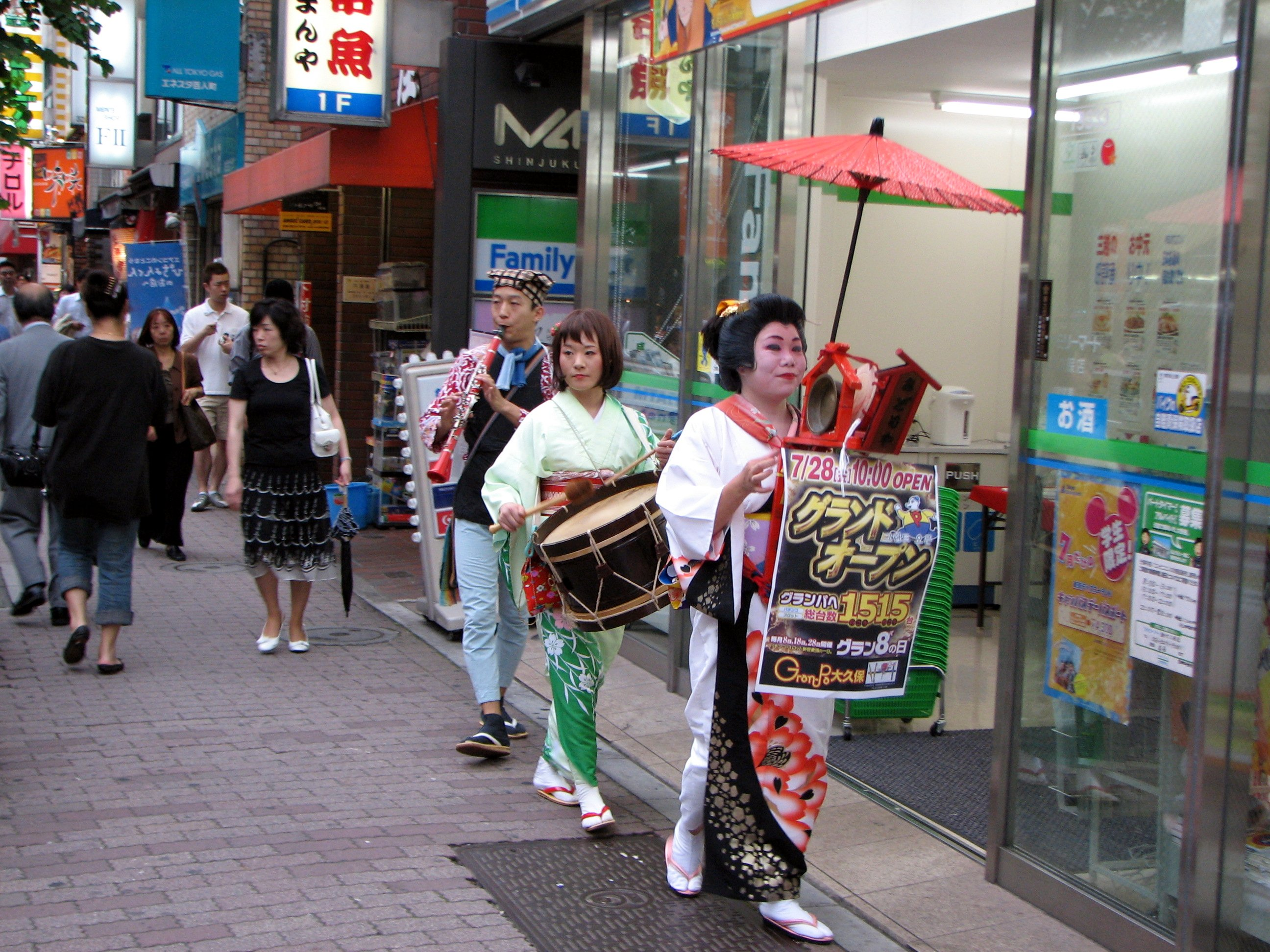 Chindoya street performers in Okubo, Tokyo, advertising for the opening of a pachinko parlor. Chindonya (Japanese:チンドン屋), in old times also called tozaiya (Japanese: 東西屋) or hiromeya (Japanese: 広目屋 or 披露目) are elaborately costumed Japanese street musicians that advertise for shops and other establishments. The performers in were used to advertise the opening of new stores and other venues, or to promote special events as for example sales. Nowadays only a few groups are left in Japan. In English they are also sometimes called Japanese marching band or sandwich man band, as one of the performers may be sandwiched between to portable billboards. The word Chindon stands for the chin and don sound of the instruments.